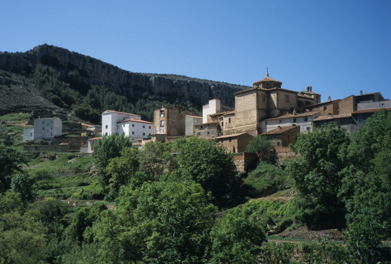 The village of Calmarza